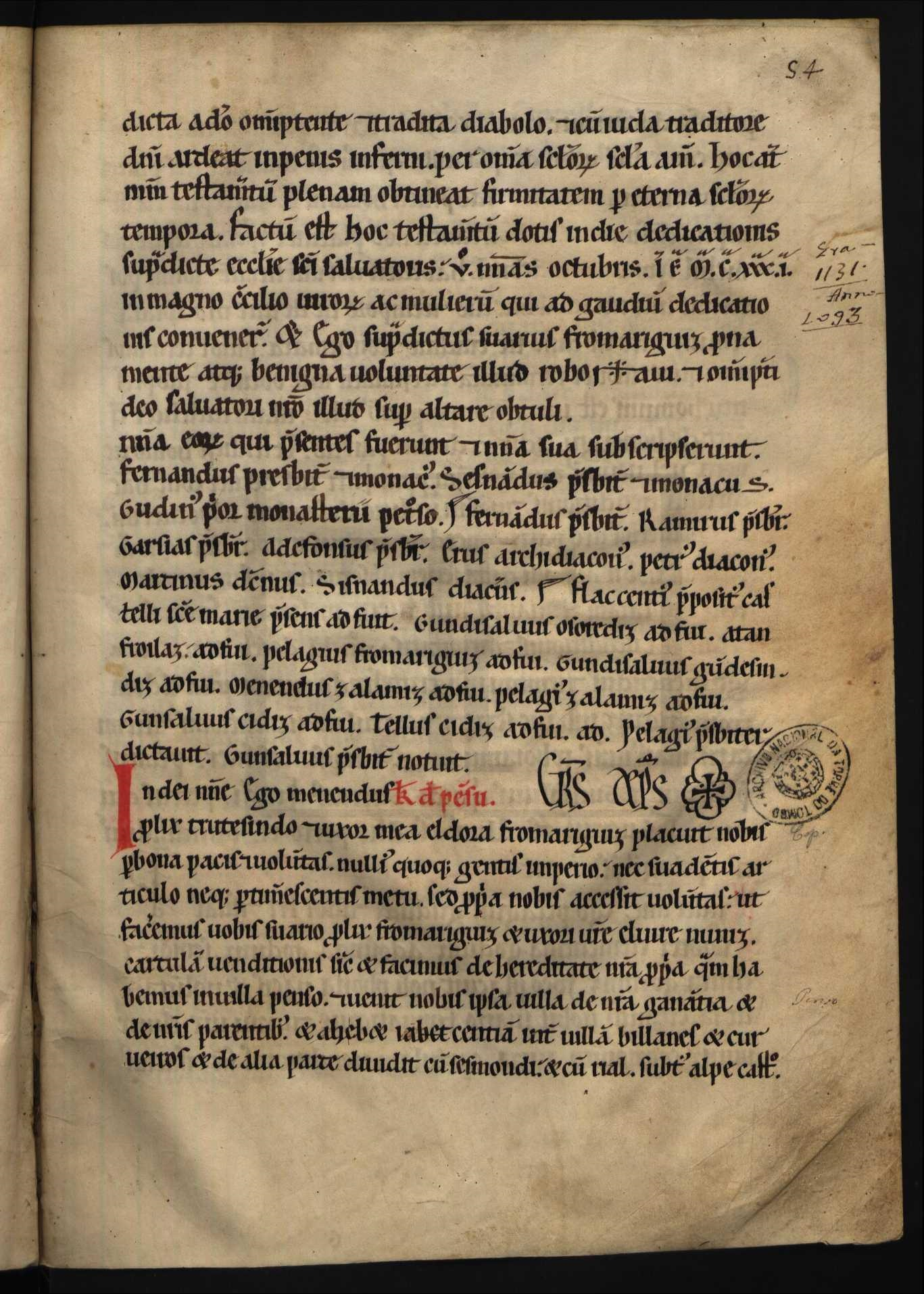 Baio-Ferrado Mosteiro de Grijó, Carta de Penso, pág. 110